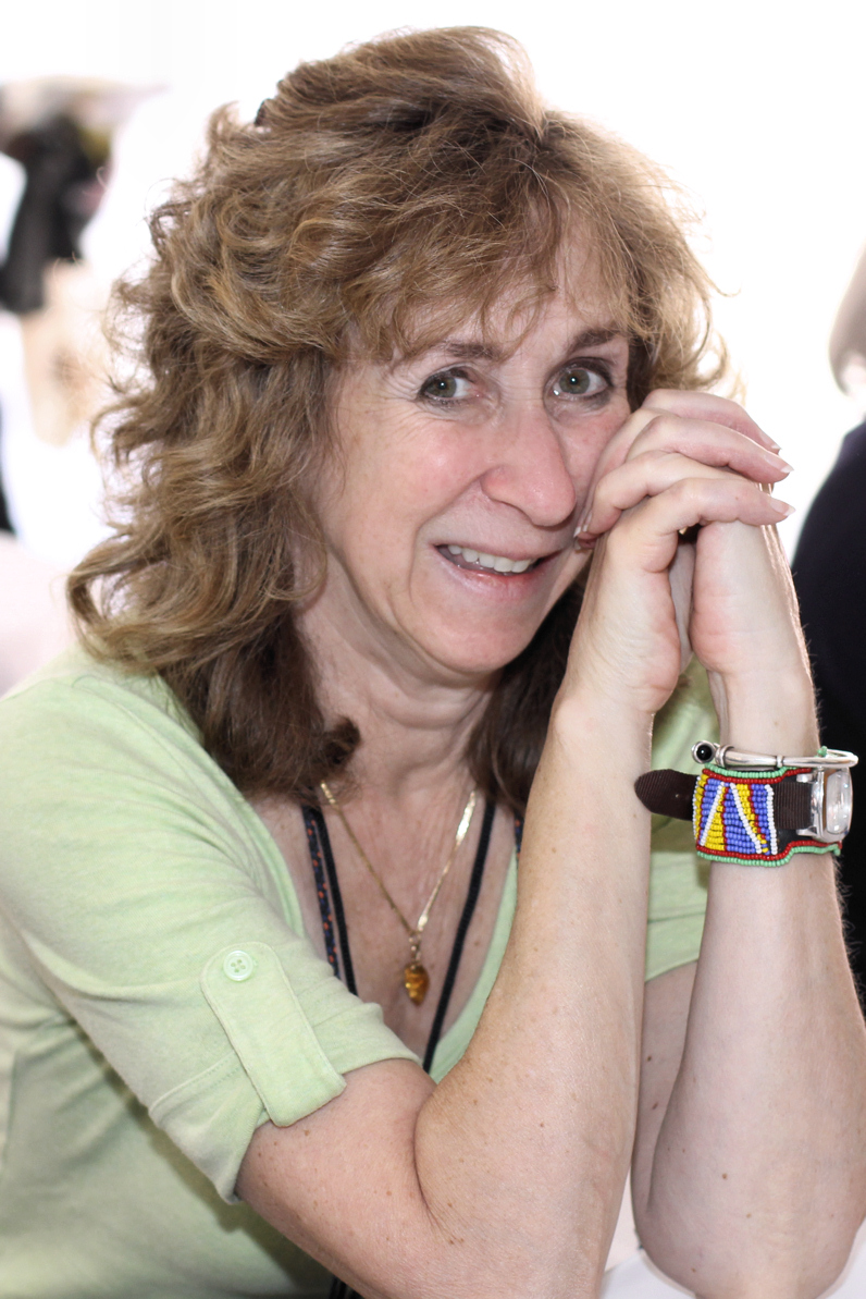 Naturalist and author Sy Montgomery at the 2018 Texas Book Festival in Austin, Texas, United States.